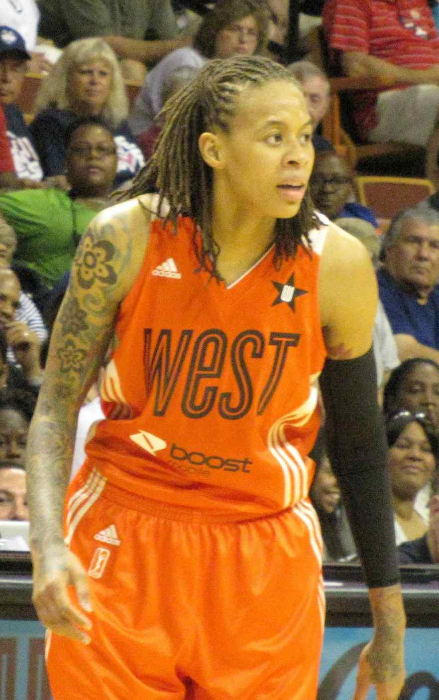 Seimone Augustus at 2013 WNBA All-Star game at Mohegan Sun 27 July 2013